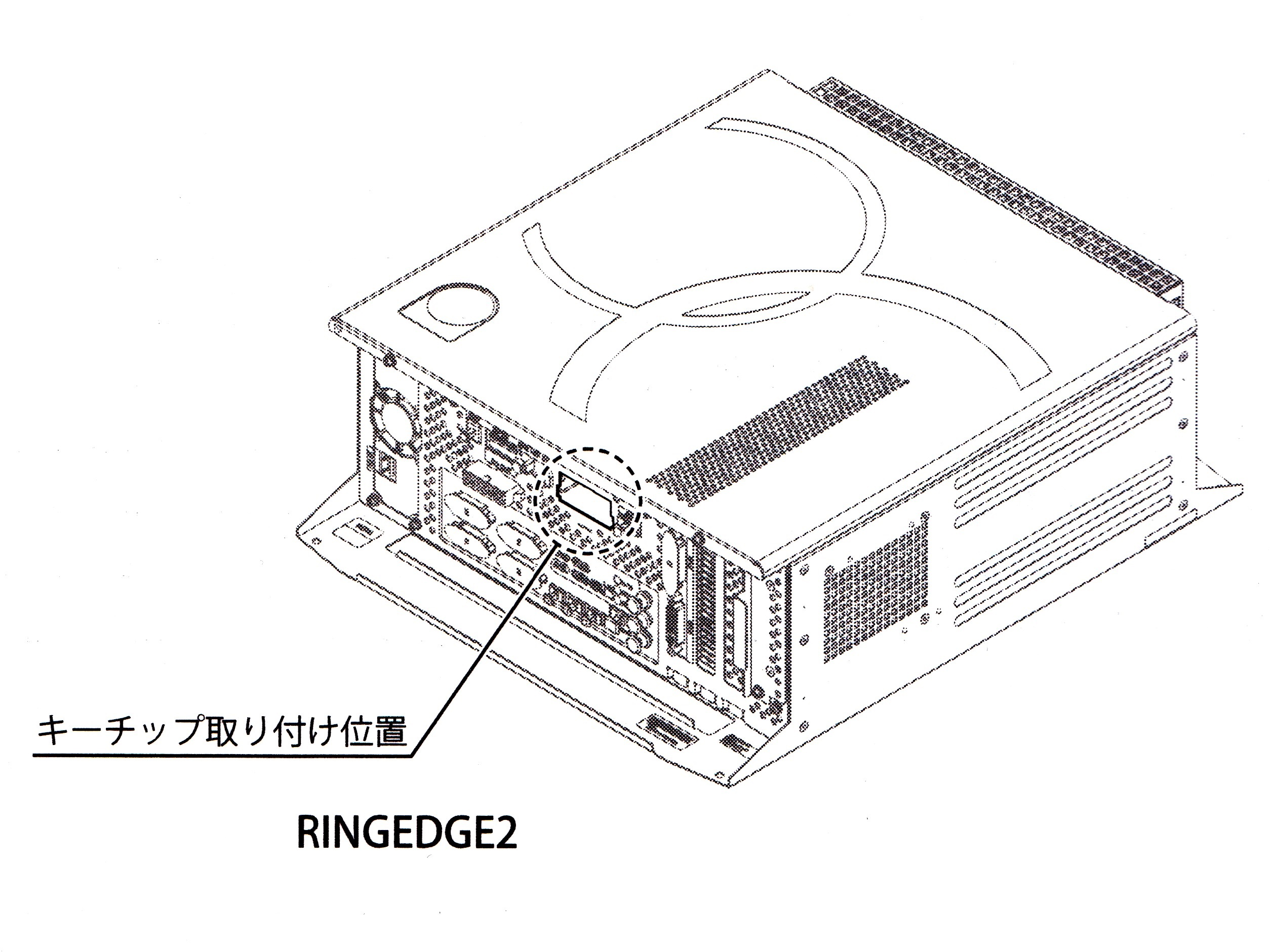 Description of the position for attaching the KEY CHIP.